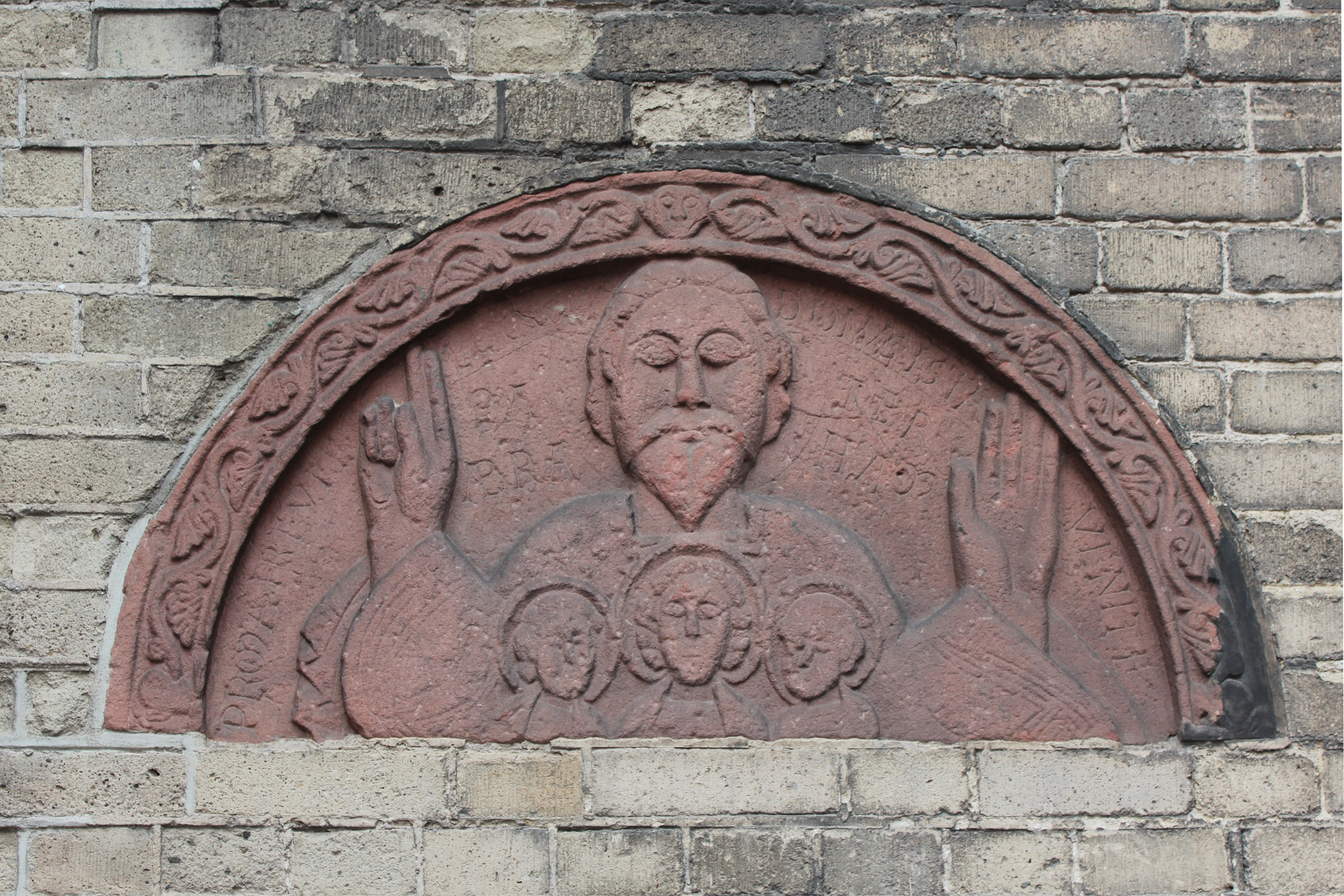 Relief in the wall of the Grote Kerk in Zwolle on the Korte Ademhalingssteeg. Depicted is (probably) Abraham with Lazarus on his lap. Text reads: prem(i) a f(e)rt vitae locus ut domus ista venite! The relief was probably part of a predecessor of the cuirrent church.